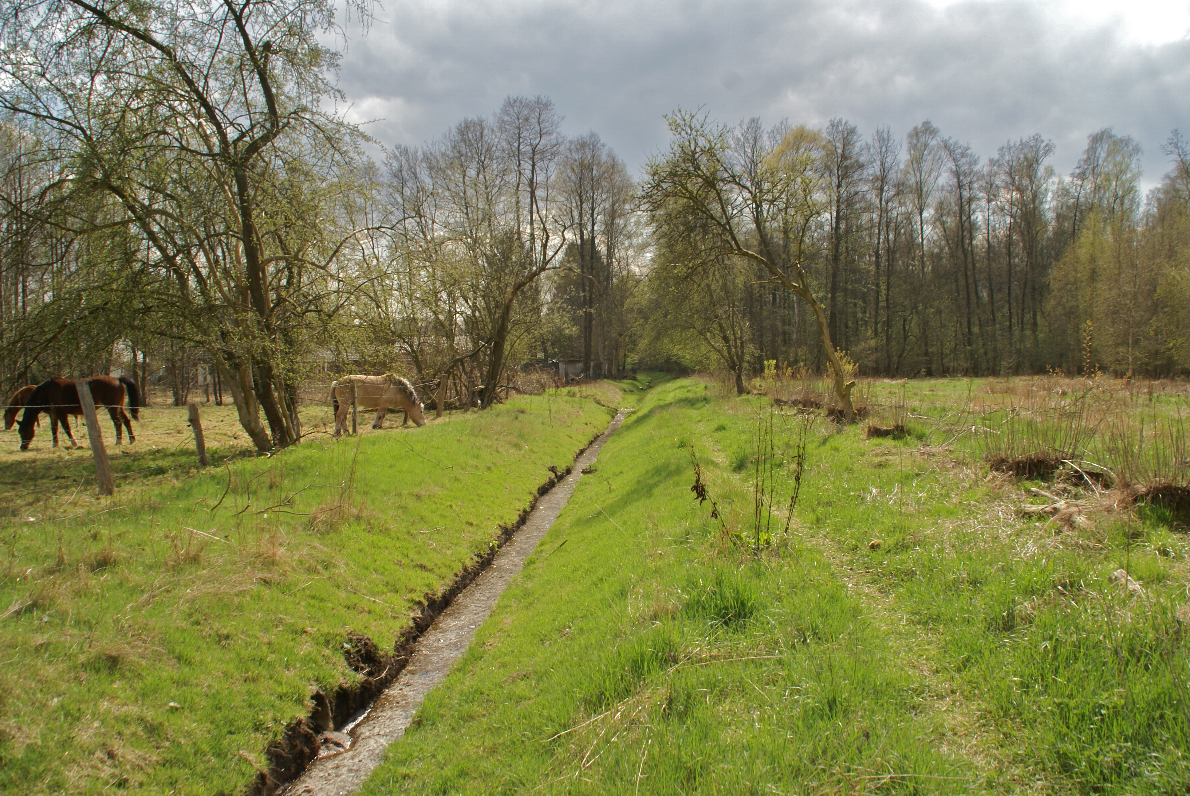 Hamburg (Langenhorn), Germany: The river Westerrodegraben